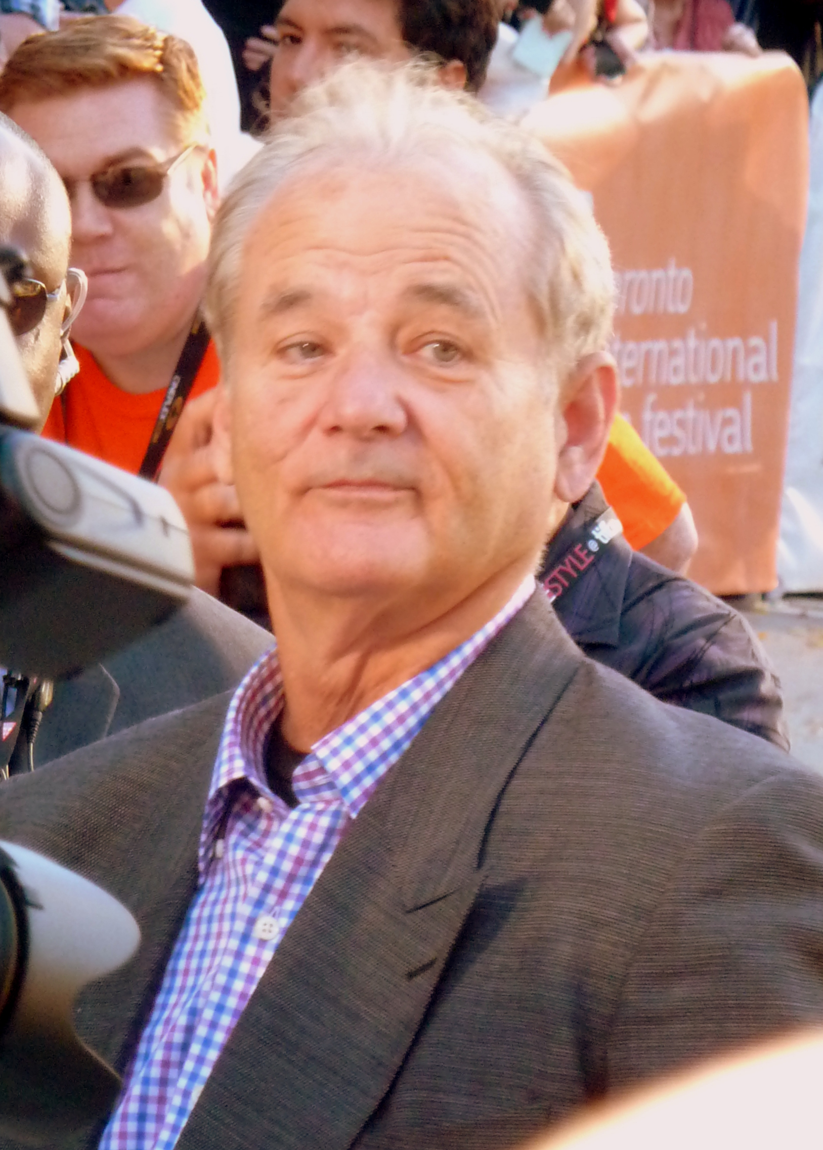 Bill Murray at the premiere of Hyde Park on Hudson, Toronto Film Festival 2012